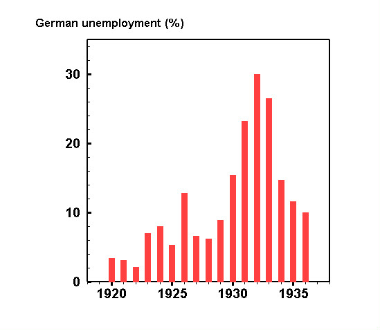 the % unemployed in German 1920–1935